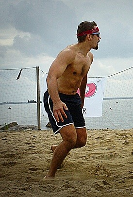 Finland volleyball and beach volleyball player Jani Pykäri